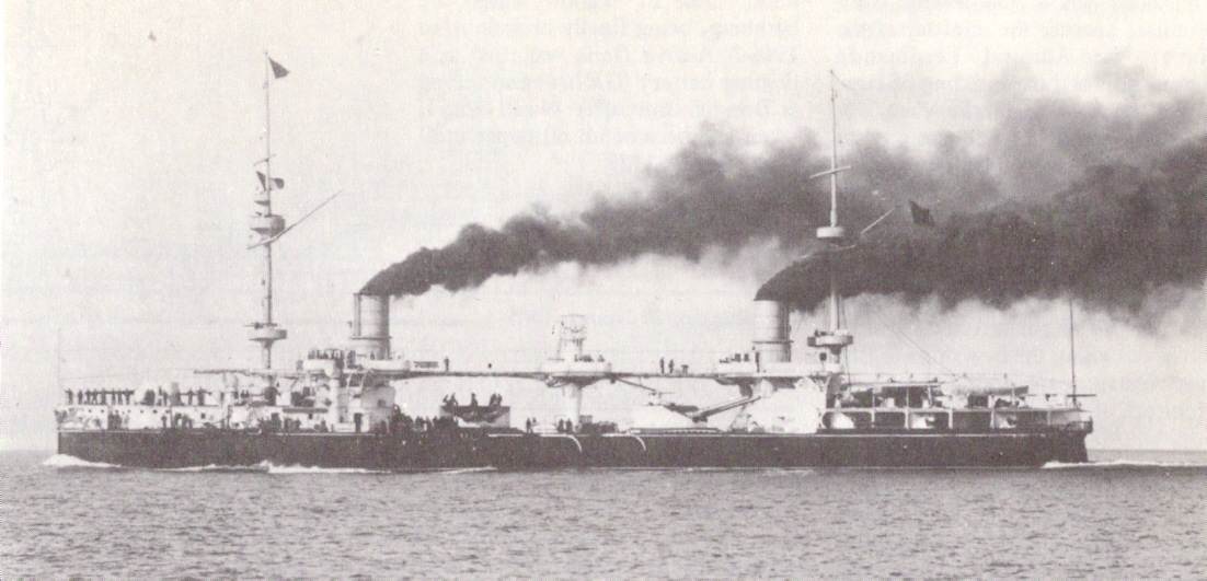 Italian battleship Enrico Dandolo after her reconstruction